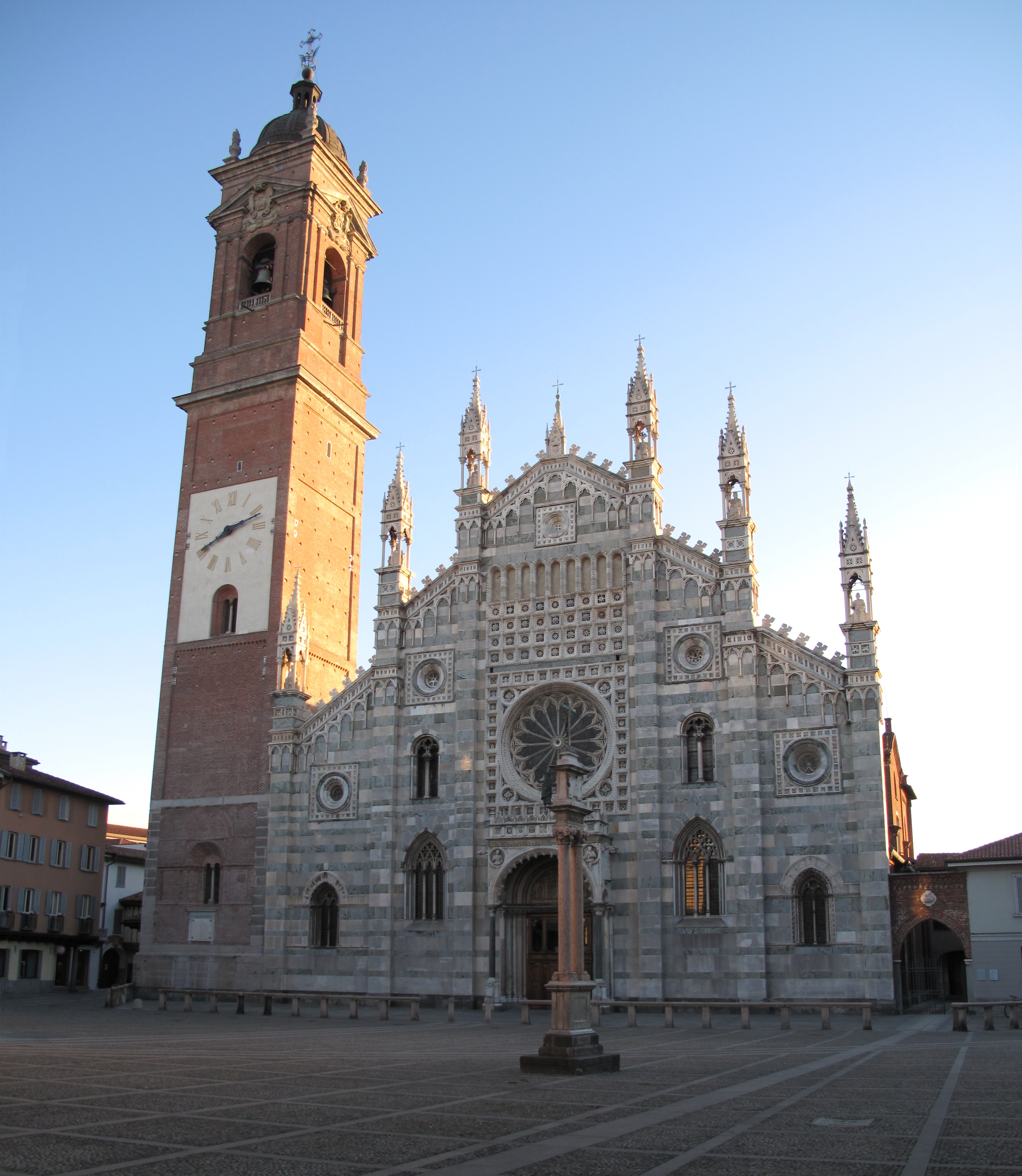 Duomo Cathedral in Monza (Milan)